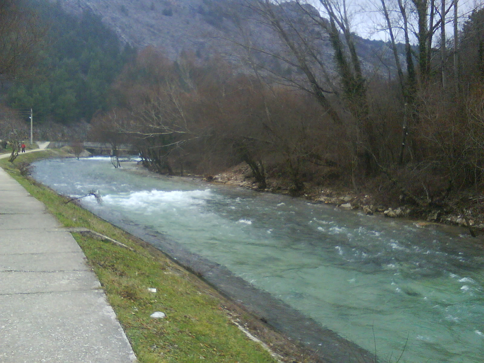 Lištica river in Široki Brijeg